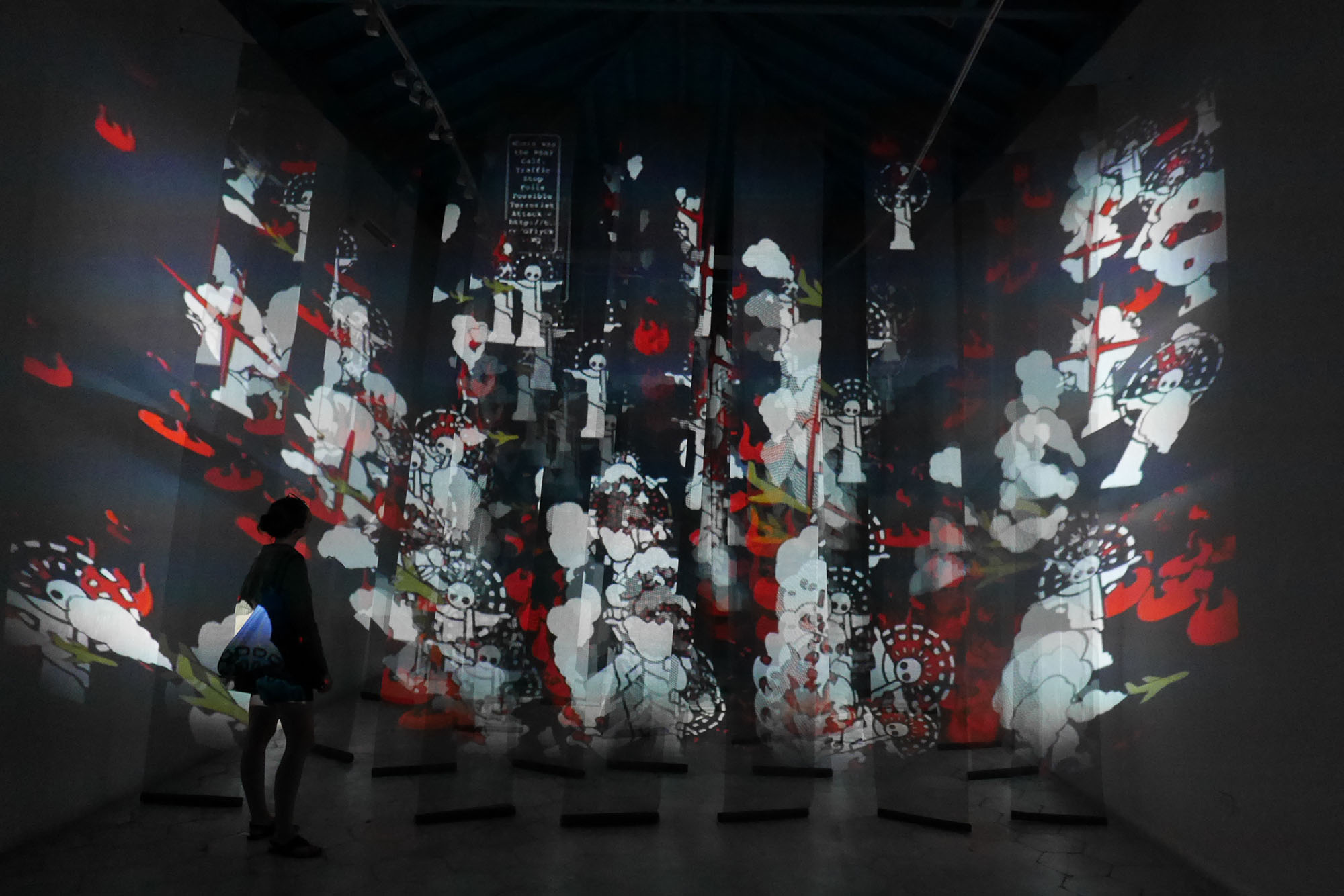 The work "Lost objects" as part of the solo exhibition "Lost" at the "Centro de Arte Contemporáneo Wifredo Lam", Havana